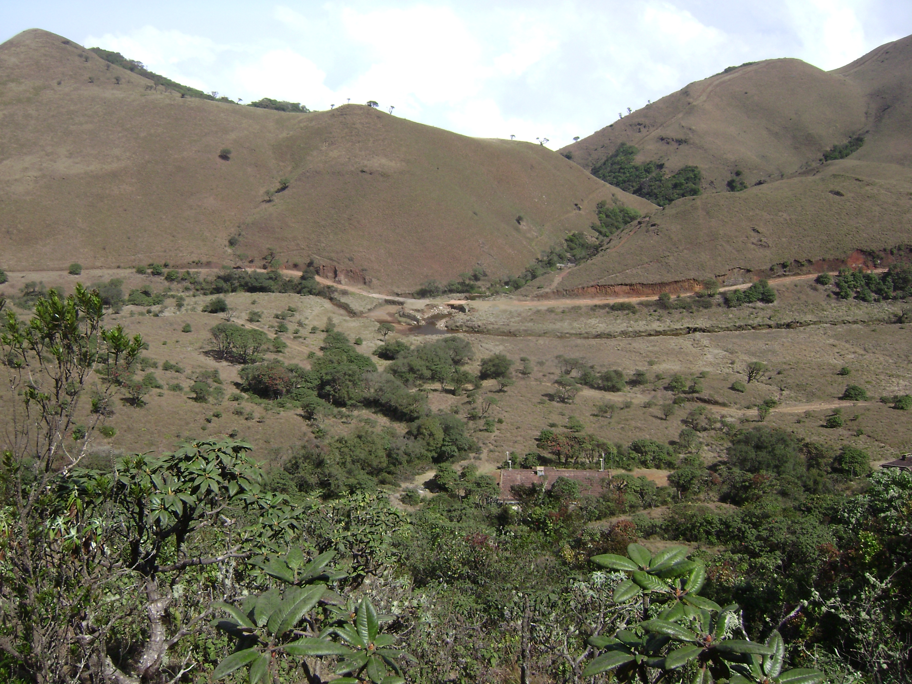 Bangitapal showing Trekking Shed, streams and access road